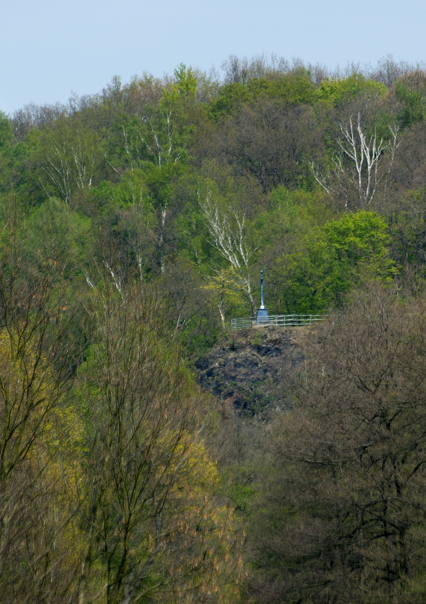 This image shows the Harrasfelsen ("Harras rock") near Braunsdorf (Niederwiesa), Germany from a distance of 0.55 miles.